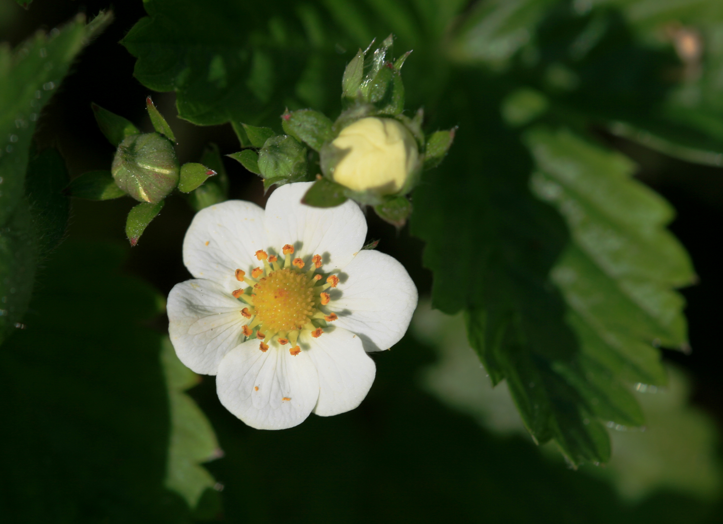 Flower of Fragaria vesca, east Bohemia, Czech Republic